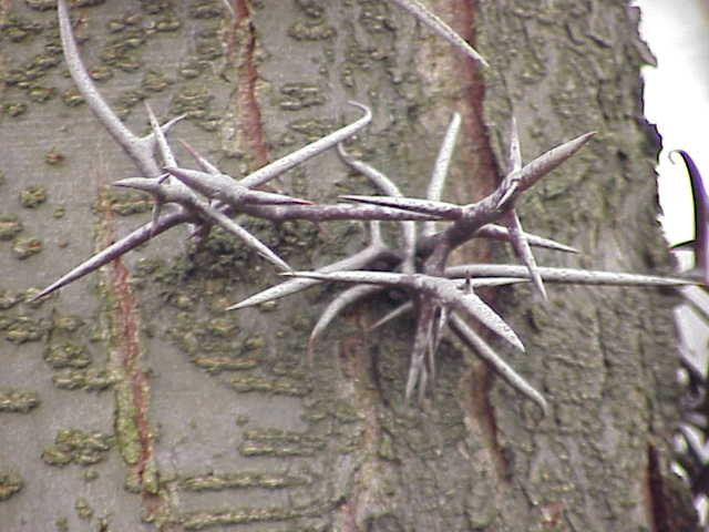 Species: Gleditsia sinensis Family: Caesalpiniaceae Image No. 1